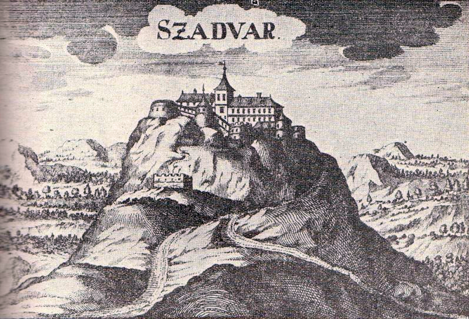 Line engraving of Szadvar fort in Hungary. Made about the 1680 year by Matthias Greischer